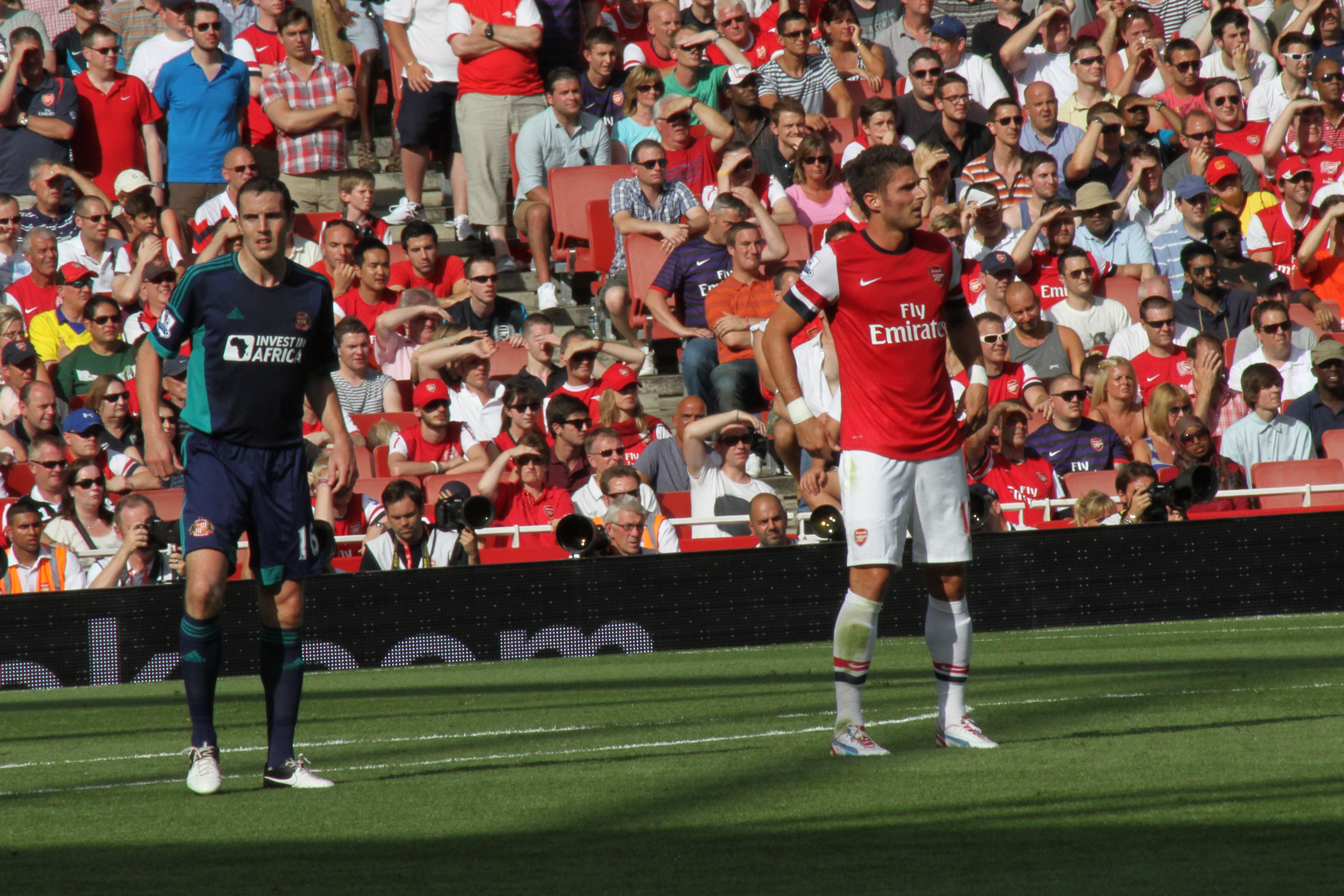 Olivier Giroud on his Arsenal debut